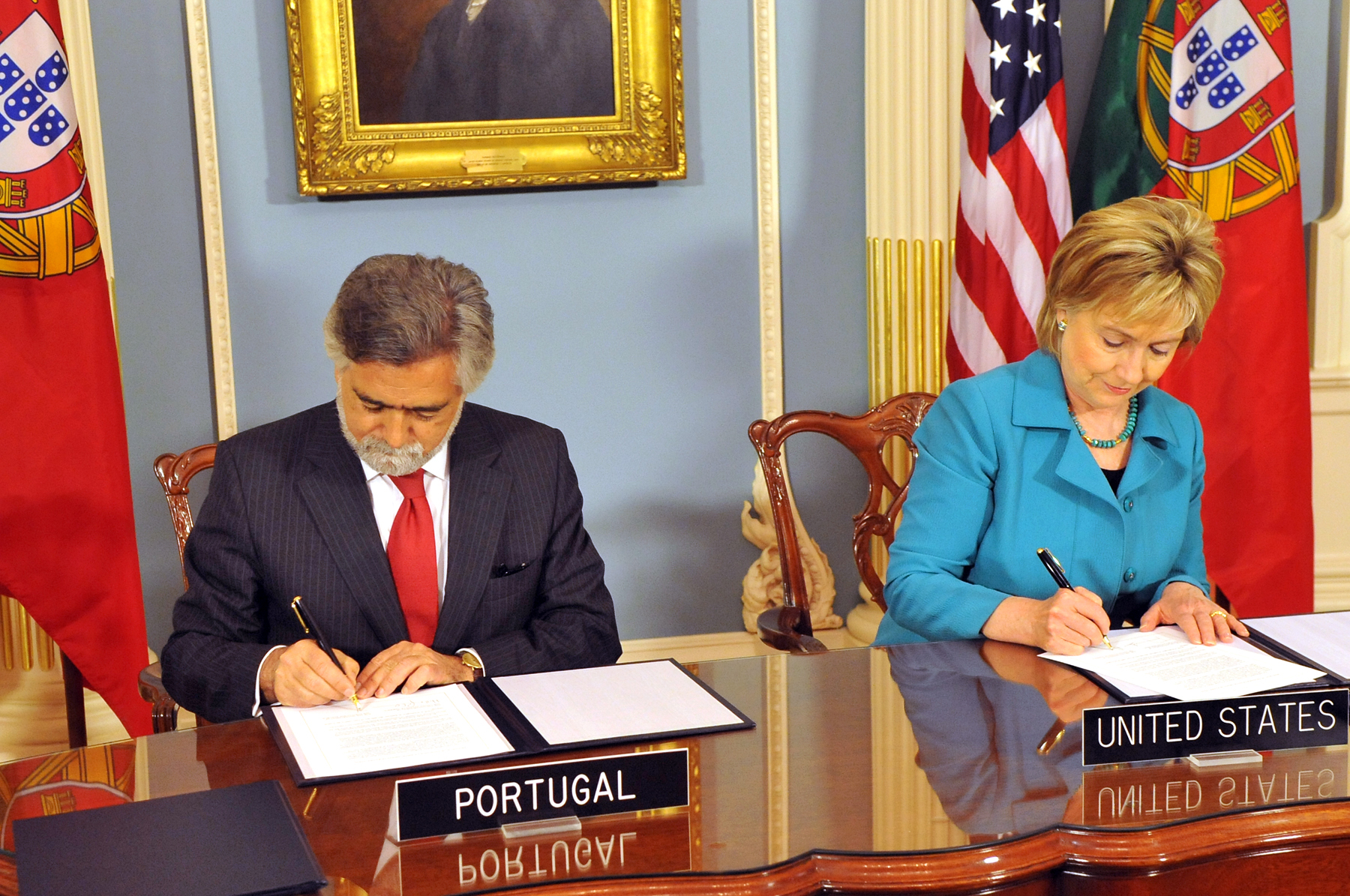 U.S. Secretary of State Hillary Rodham Clinton meets with Portuguese Foreign Minister Luis Amado at the U.S. Department of State in Washington, DC June 5, 2009.